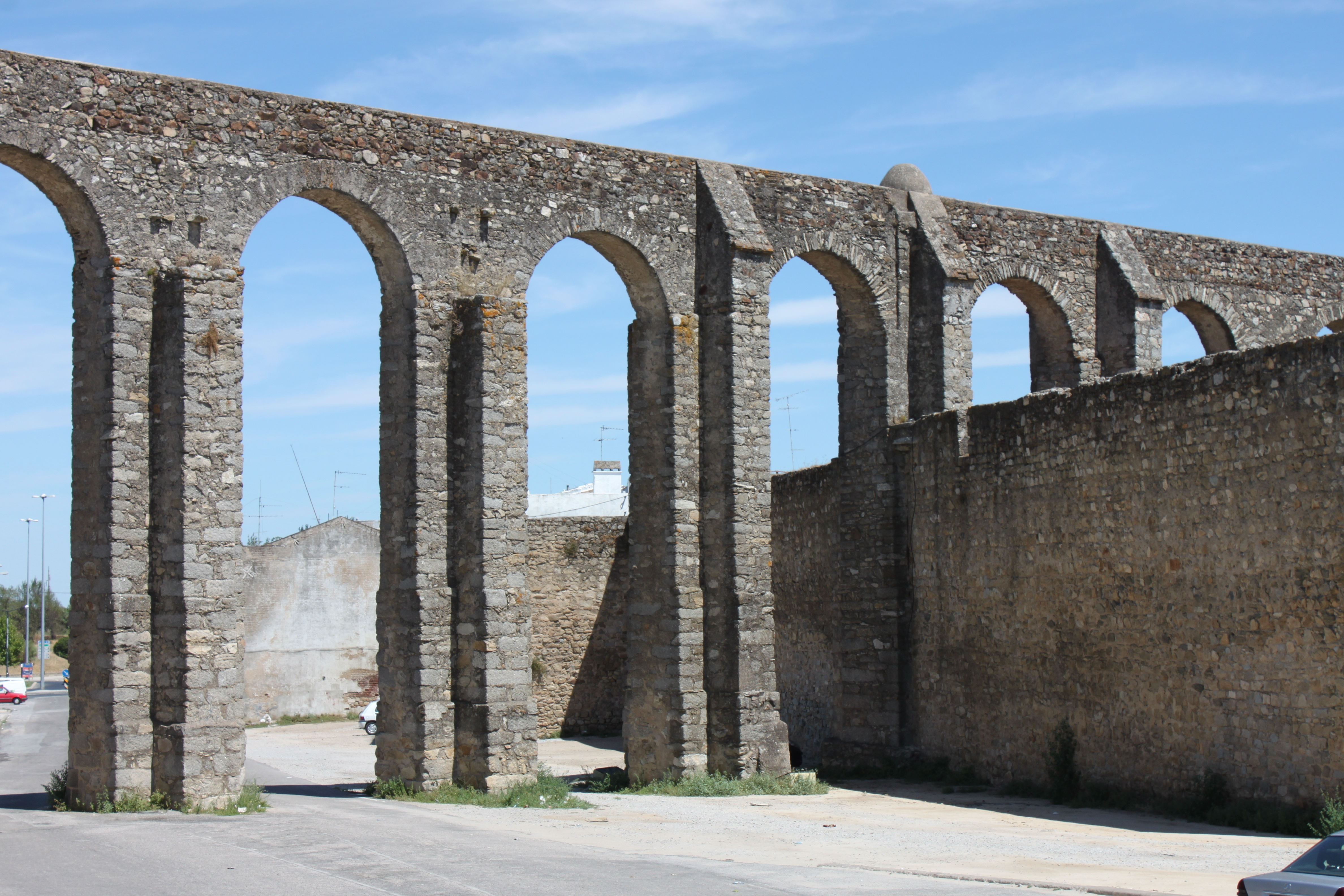 This file was uploaded for Wiki Loves Monuments in Portugal with the unique identifier 70229.